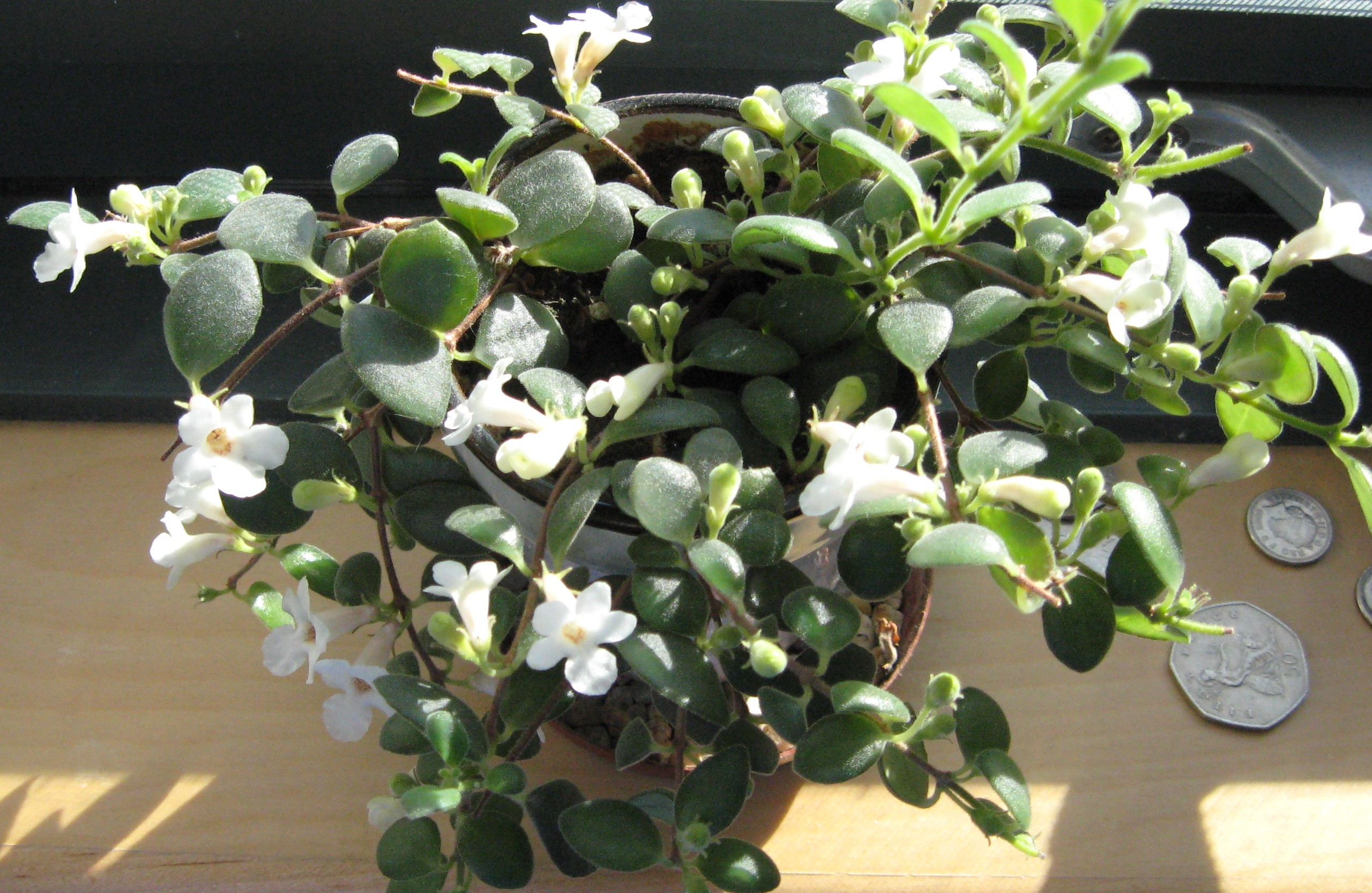 Codonanthe carnosa